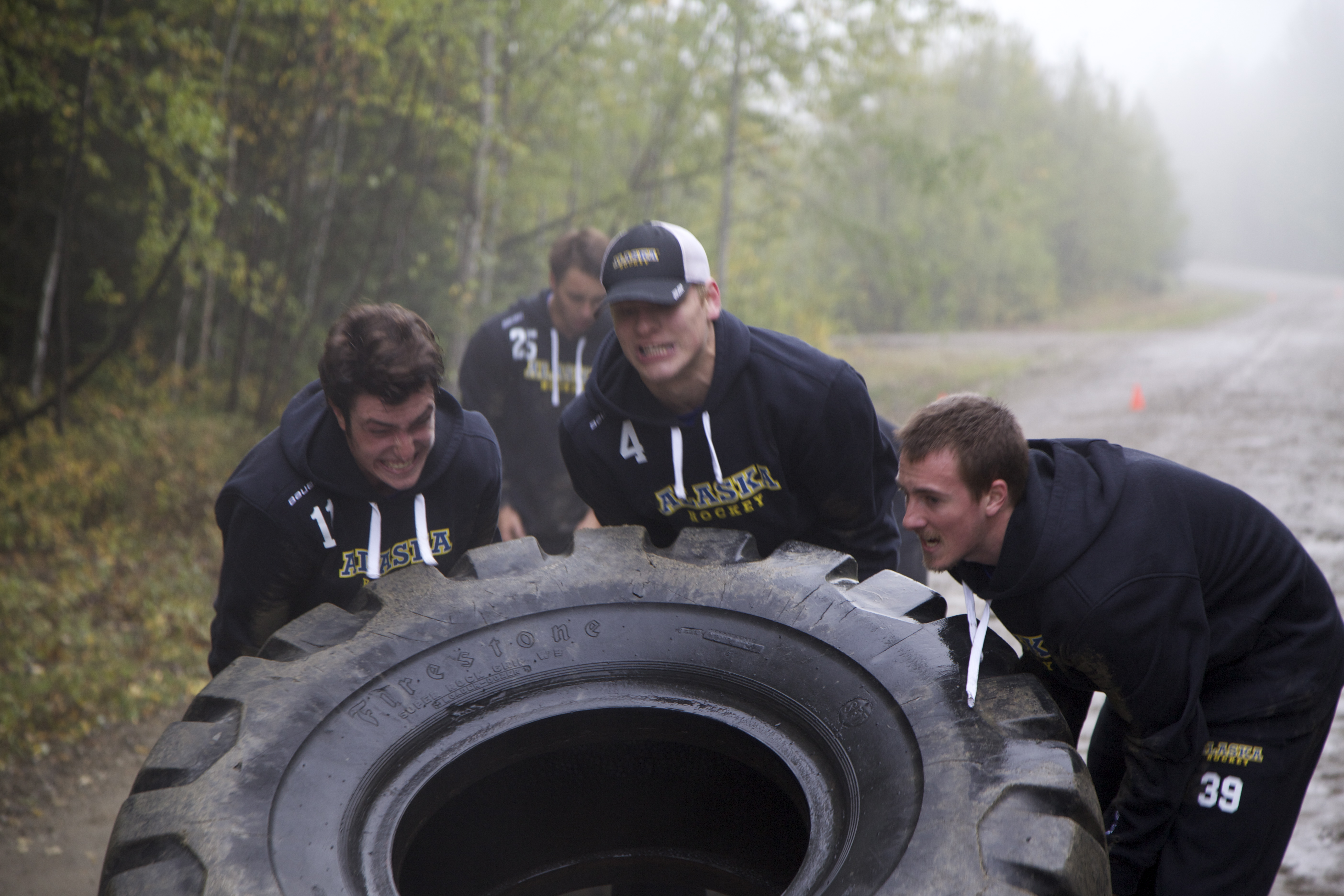 Alec Hajdukovich, Colton Parayko, and John Keeney work together to flip a large tire as part of a leadership challenge hosted by the 2-8 Field Artillery Battalion and the 1st Stryker Brigade Combat Team, 25th Infantry Division.